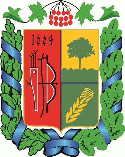 Coats of arms of Borivskyj raions